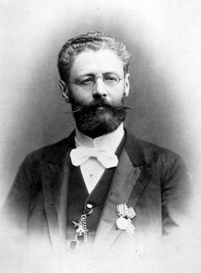 Julius Bruck (1840-1902), dentist from Breslau (Wrocław)